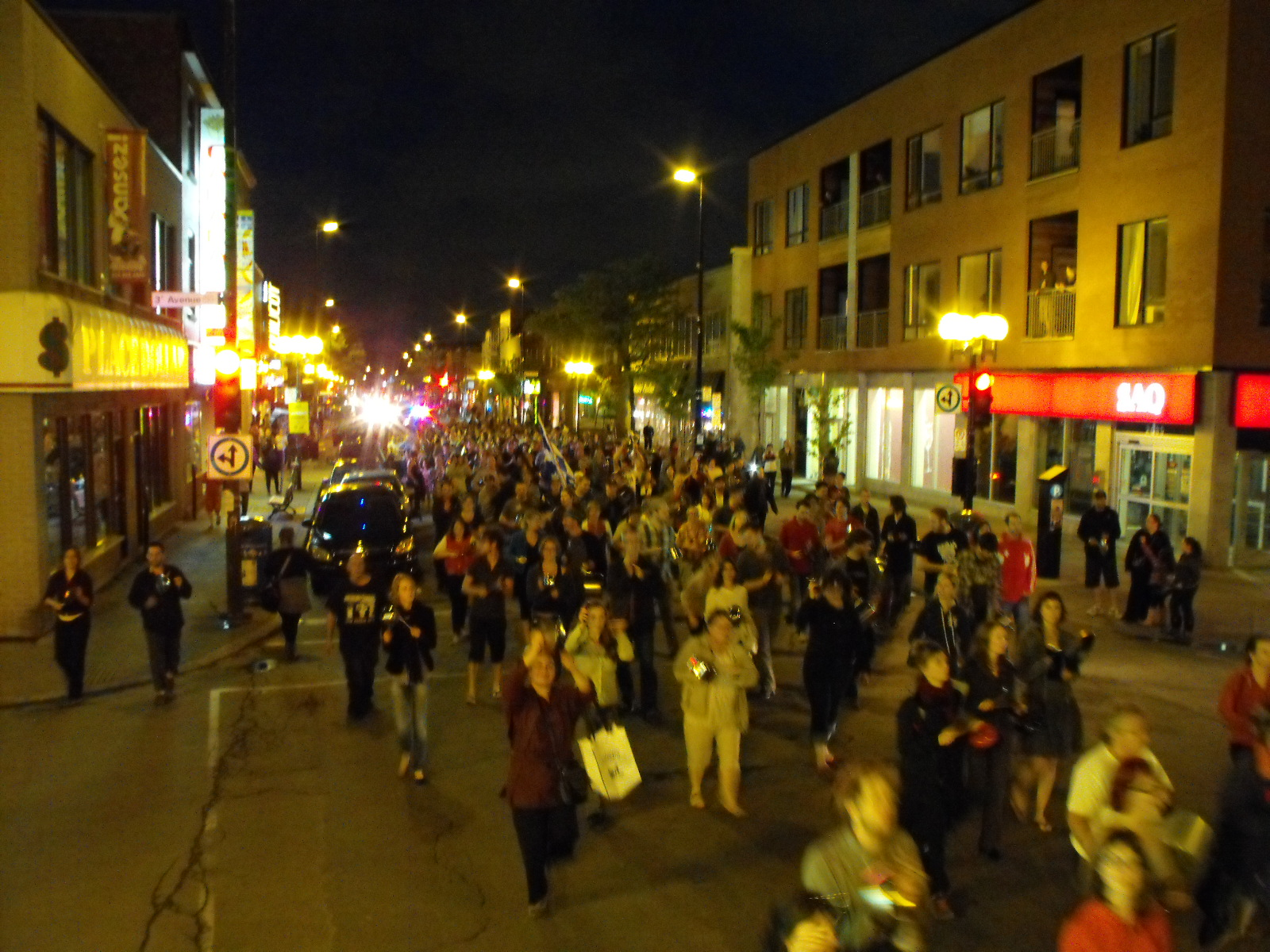 manifestation against bill 78 (Québec), from 20 h to 22 h on Masson street, quartier Rosemont, Montréal real local time 21:18, 22 May 2012 -- some computer driver bug impacts the Metadata